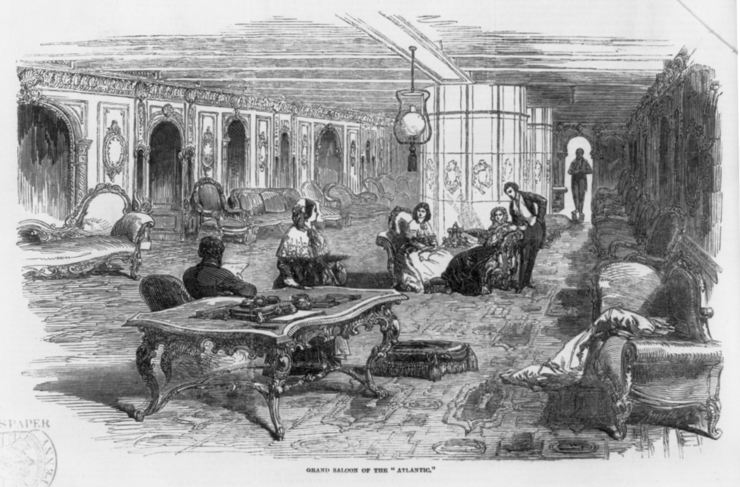 Grand Saloon of the Collins Line steamship Atlantic (launched 1849).